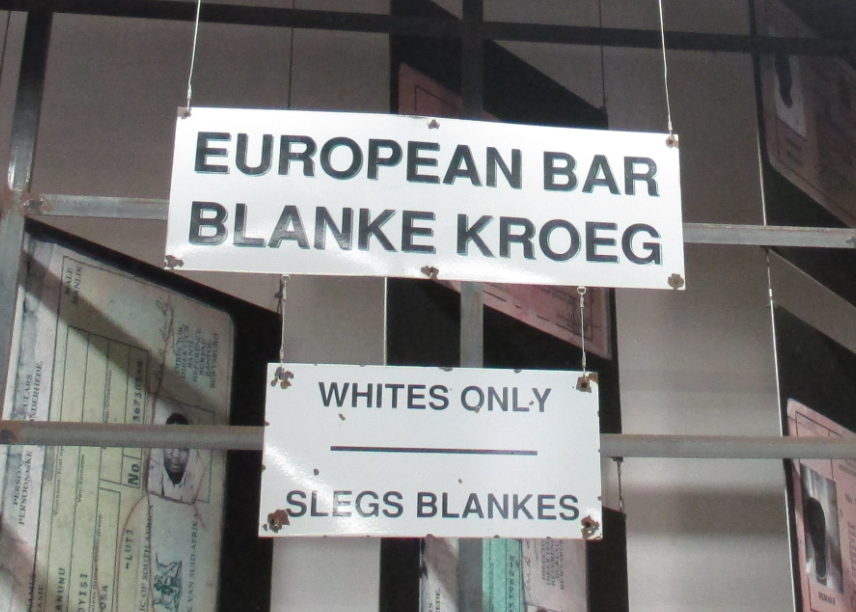 Entrance hall at the South African Apartheid Museum, Johannesburg This media shows a South African Protected Site with SAHRA file reference [1].